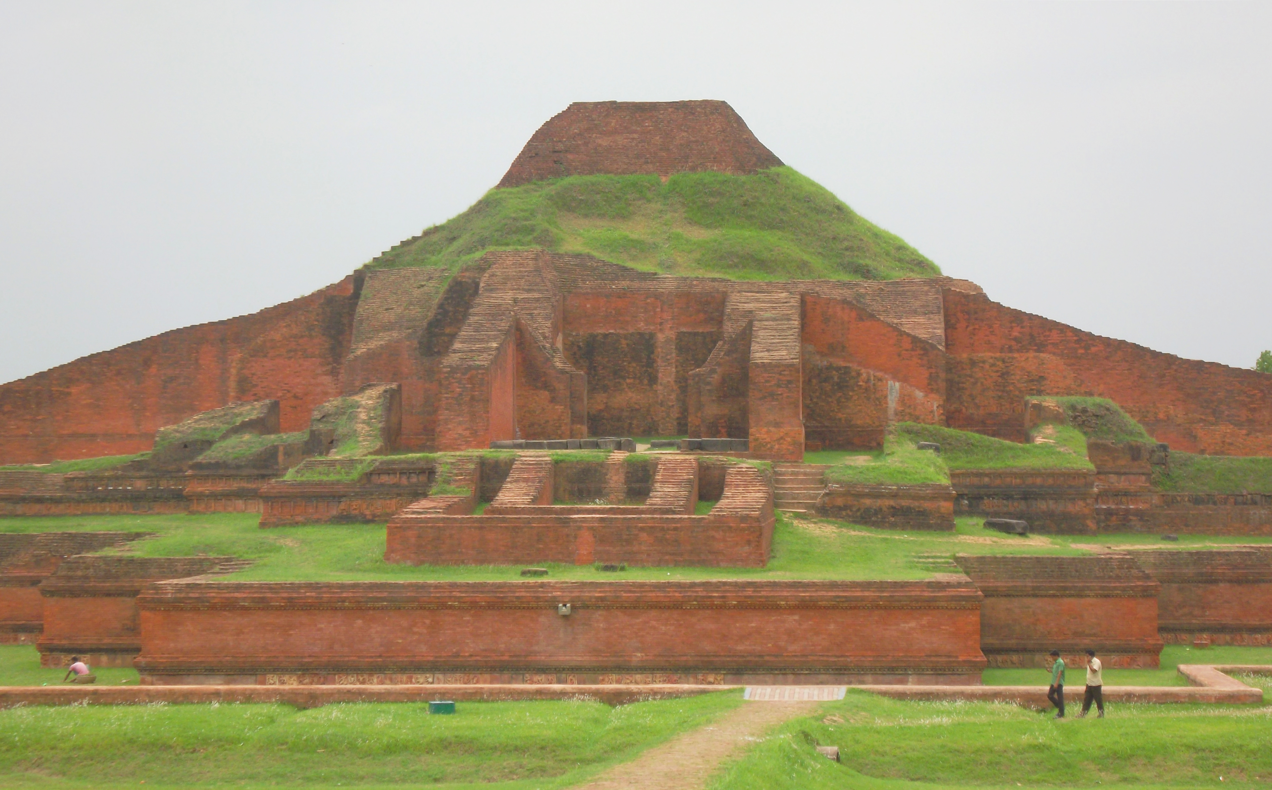 Somapura Mahavihara in Paharpur is among the best known Buddhist viharas in the Indian Subcontinent and is one of the most important archeological sites in the country.